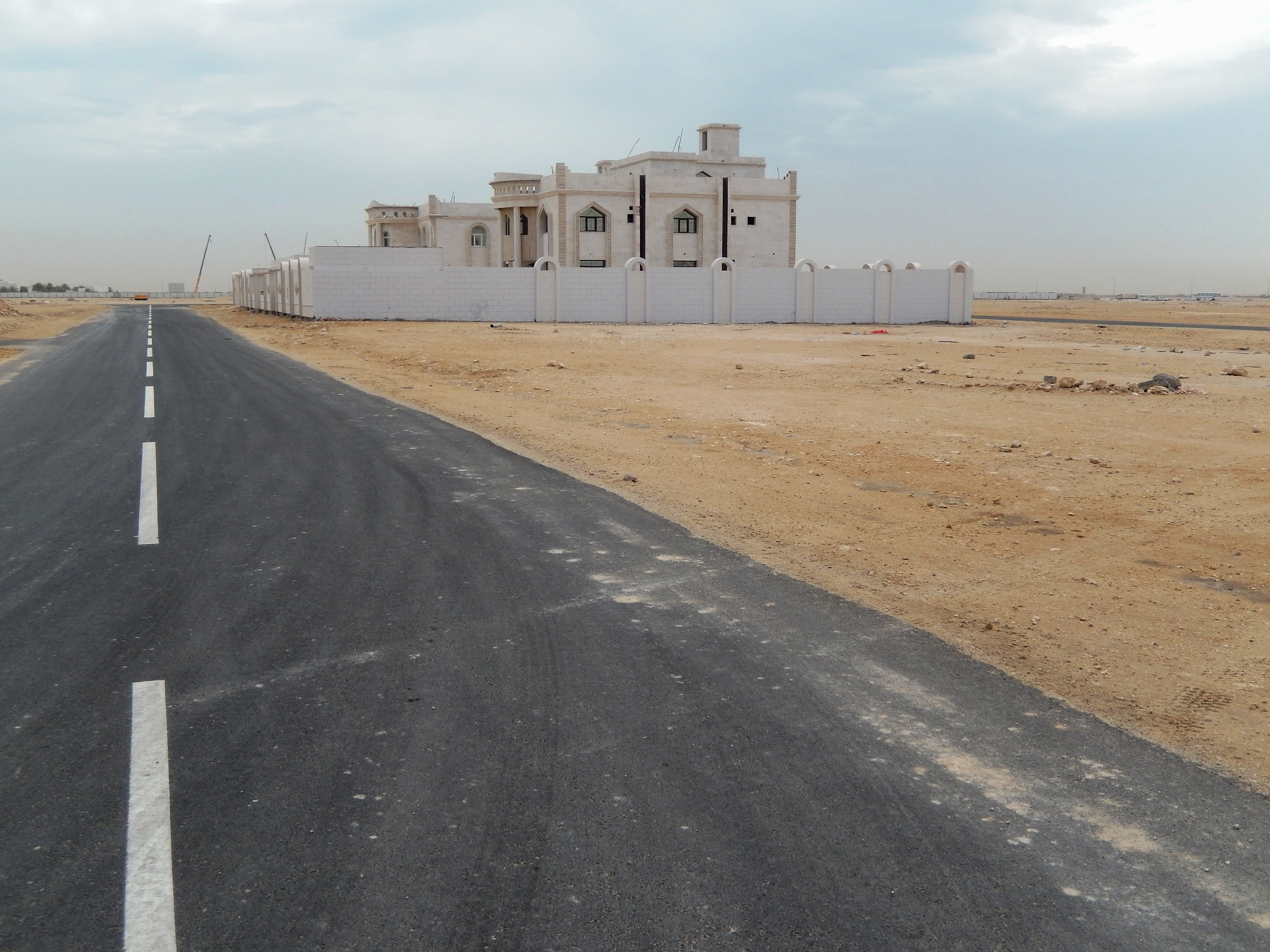 Large walled residences in Umm Garn (also spelled as Umm Qarn), municipality of Al Daayen, Qatar.